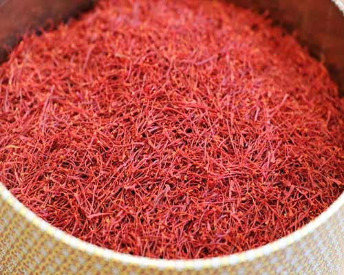 Saffron sargol gonabad